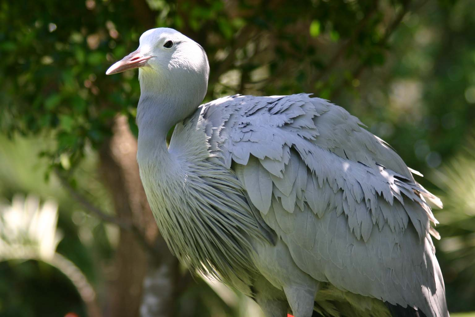 Photograph taken in South Africa using a Canon EOS300D and Canon 300mm Image Stabilizer EF lens with Skylight 1A filter.